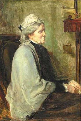 "Portrait of a Seated Woman"